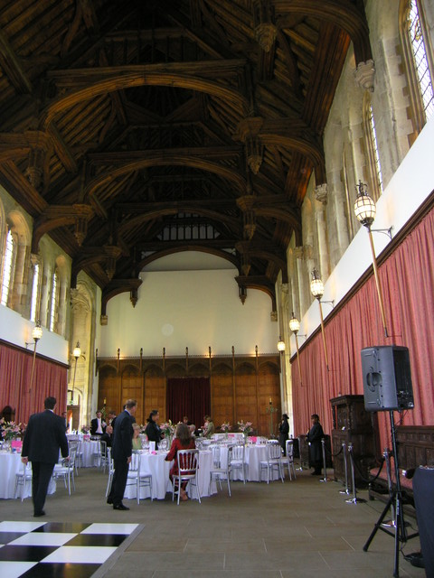 Eltham Palace Great Hall taken by User:Shermozle on 23rd August, 2004.